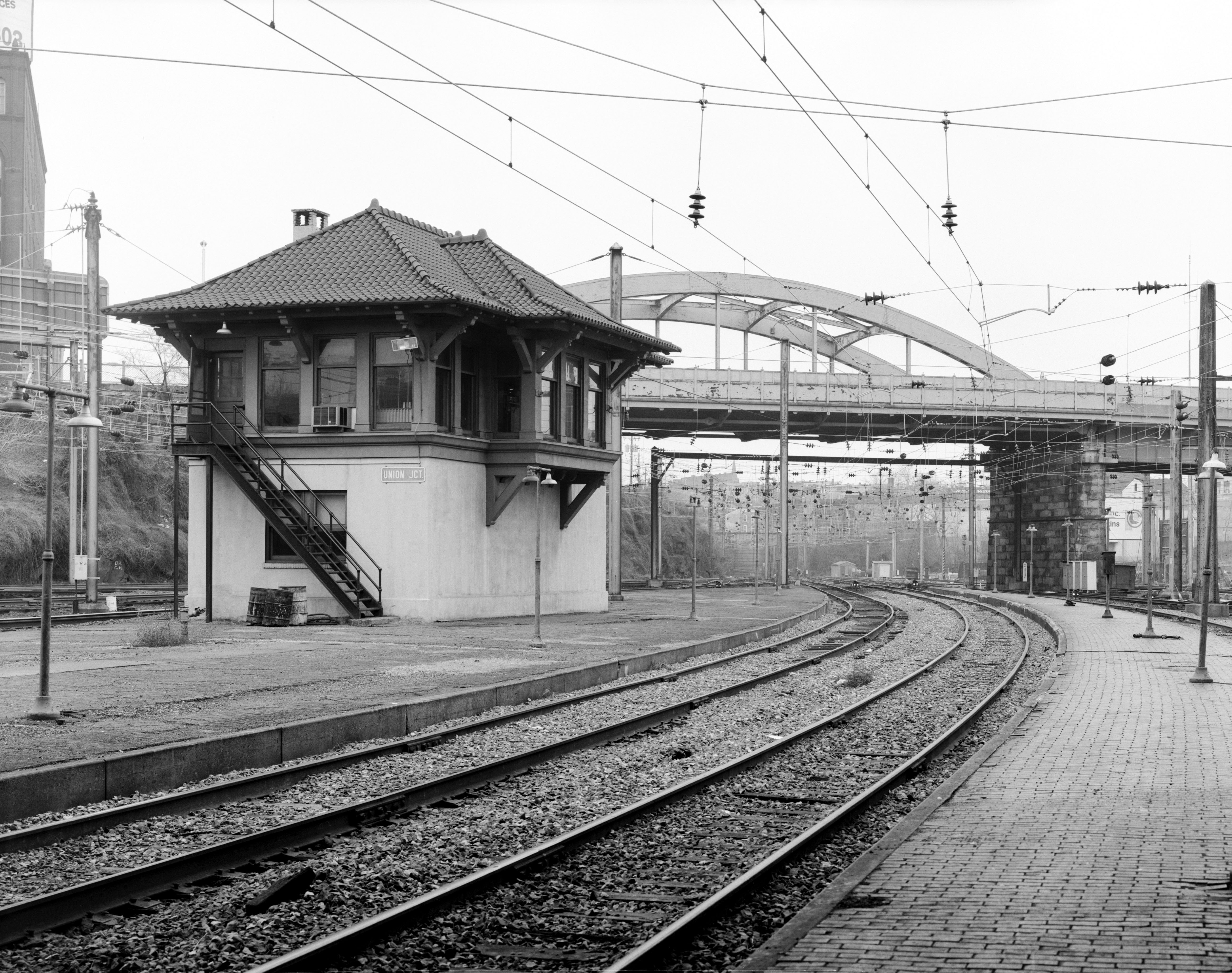 View of Union Junction Interlocking Tower, Baltimore, Maryland. Built 1910 by the Pennsylvania Railroad. Closed in 1987 and subsequently demolished.